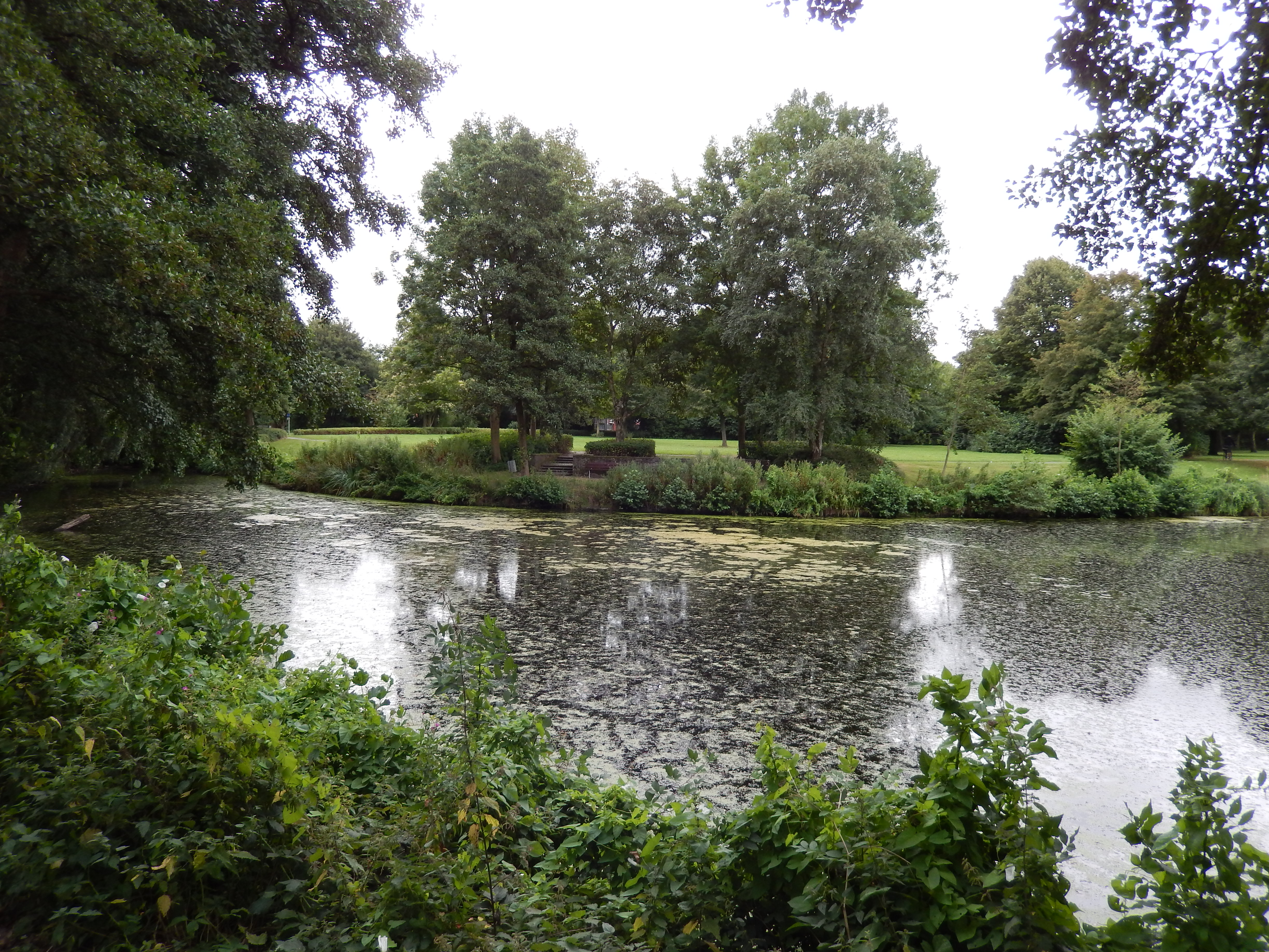 Park in Wilhelmshaven, Germany.